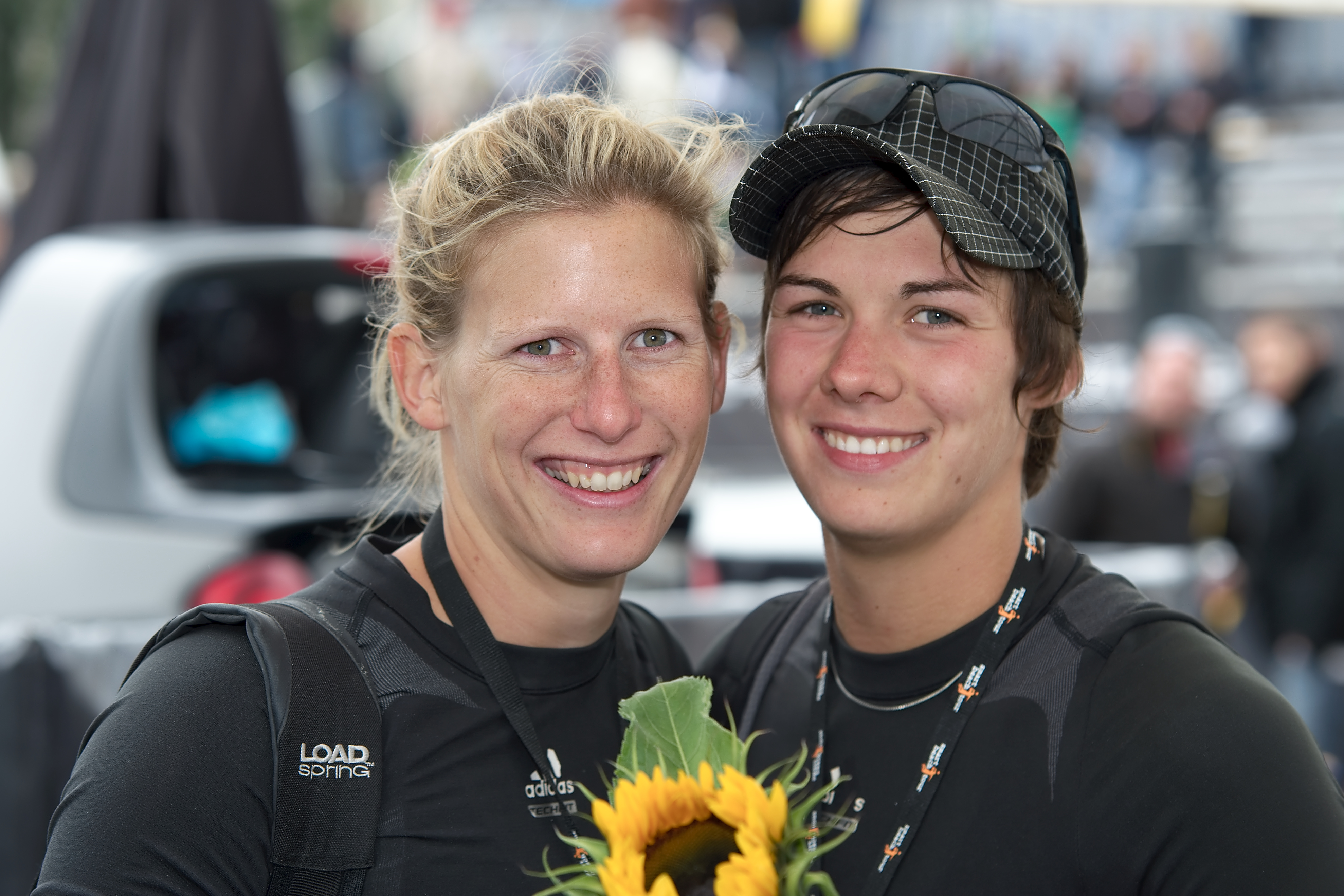 The German beach volleyball players Geeske Banck and Kira Walkenhorst at the Smart Beach Tour tournament in Cologne 2011.